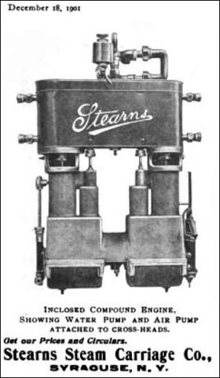 Stearns Steam Carriage Company - Inclosed Compound Engine